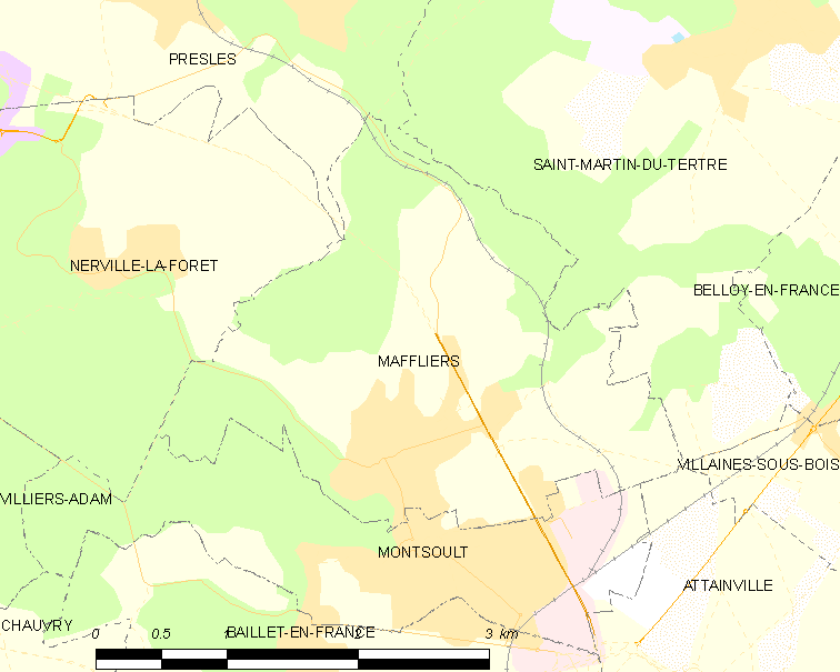 Map of French municipality Maffliers